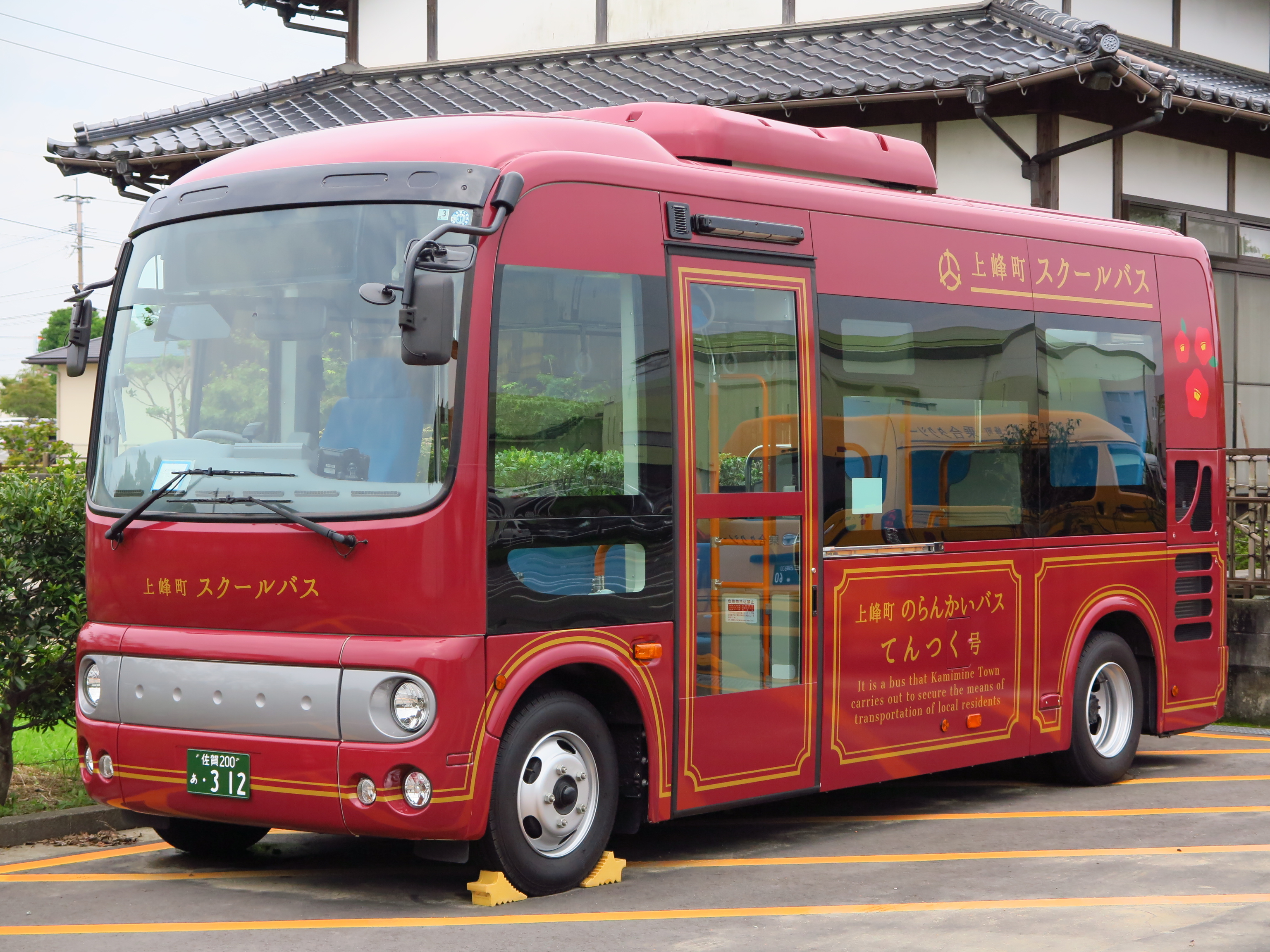 Aug 30 2019 at 'Spark Kamimine'